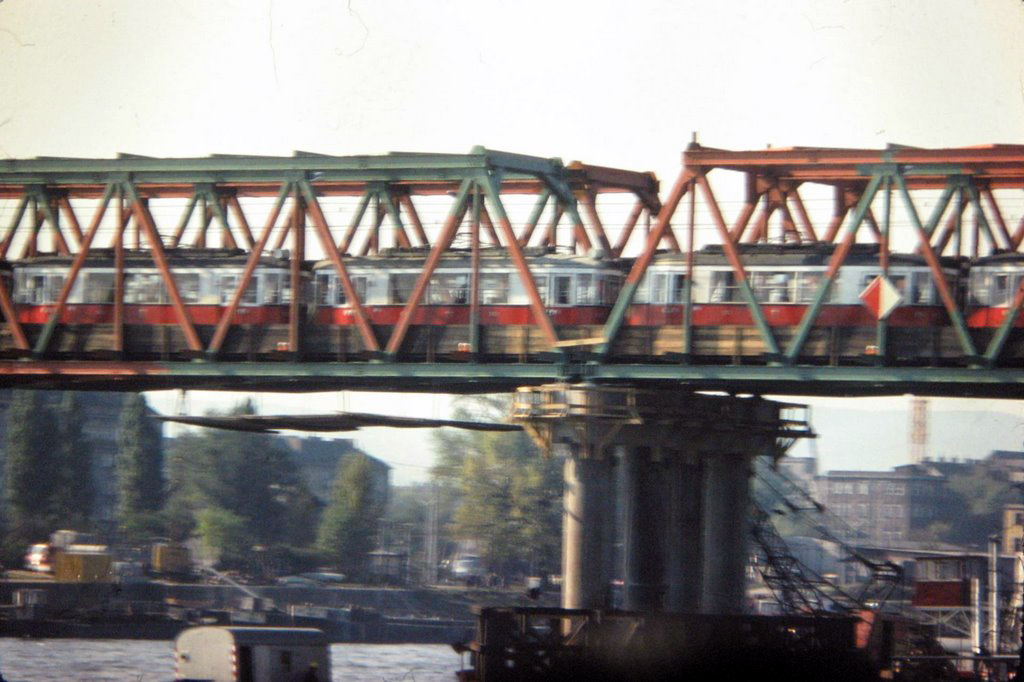 Temporary Bridges after the collapse of the Reichsbrücke in Vienna